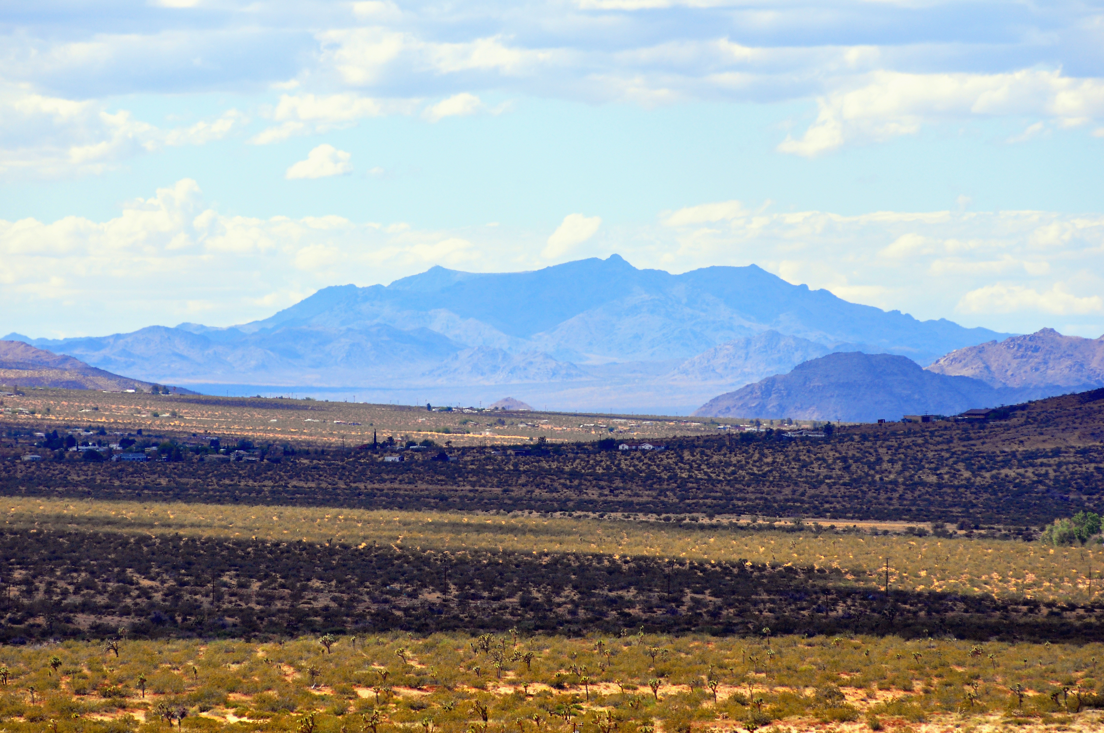 Johnson Valley on a clear day looking north